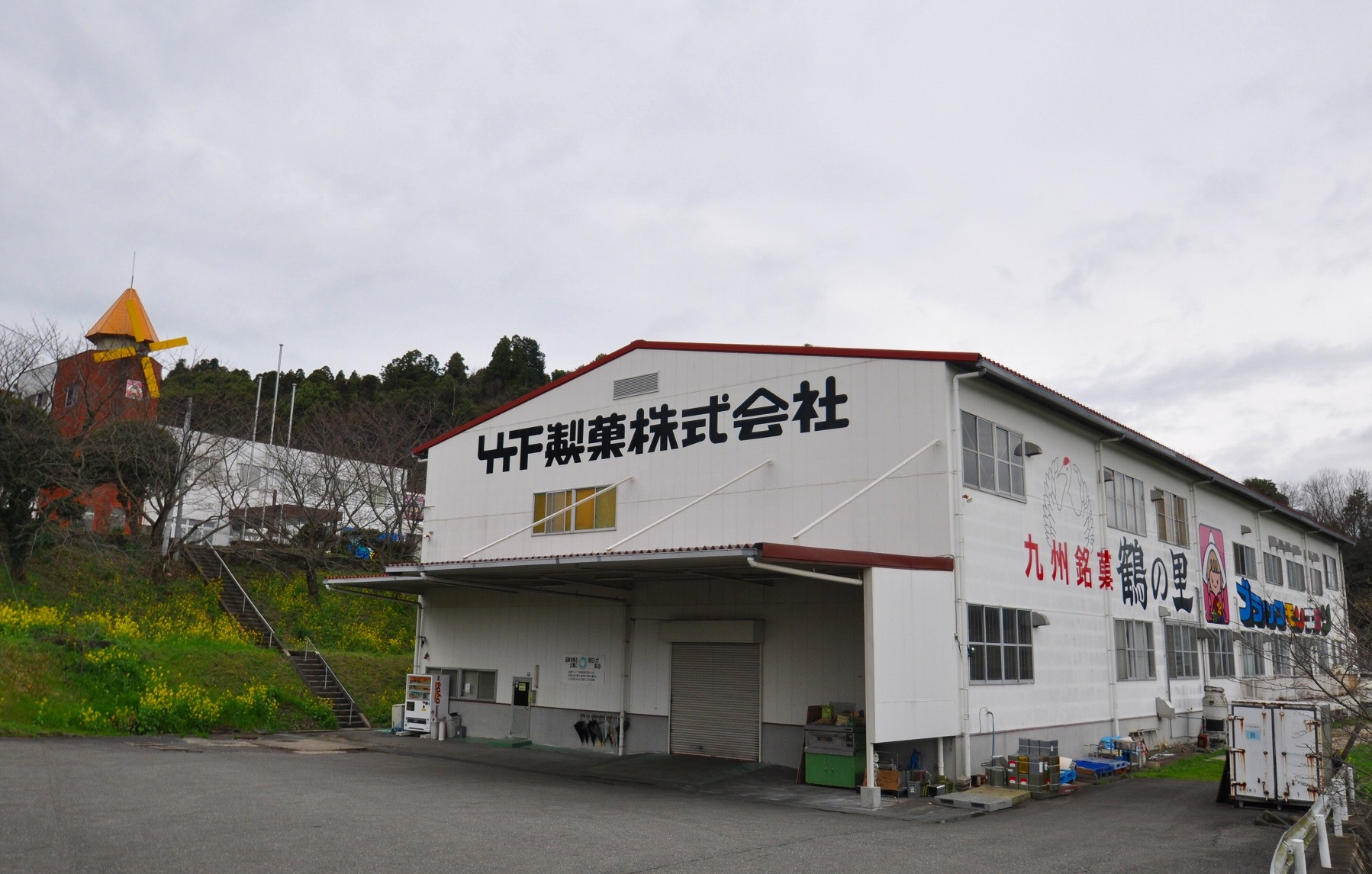 TAKESHITA SEIKA Factory